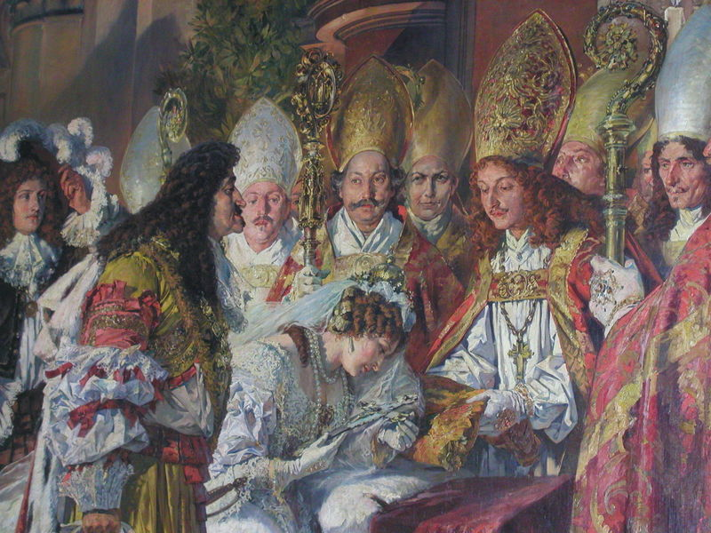 Marriage of Holy Roman Emperor Leopold I. of Austria and his third wife Princess Eleonore of Pfalz-Neuburg, mother of Holy Roman Emperor Joseph I. of Austria and Holy Roman Emperor Karl VI. of Austria, grandmother of Empress Maria Theresia of Austria, own fotograph (selbst aufgenommenes Foto), Großer Rathaussaal in Passau, c. 1890